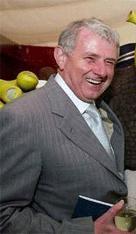 Labor leader Simon Crean 2001-2003